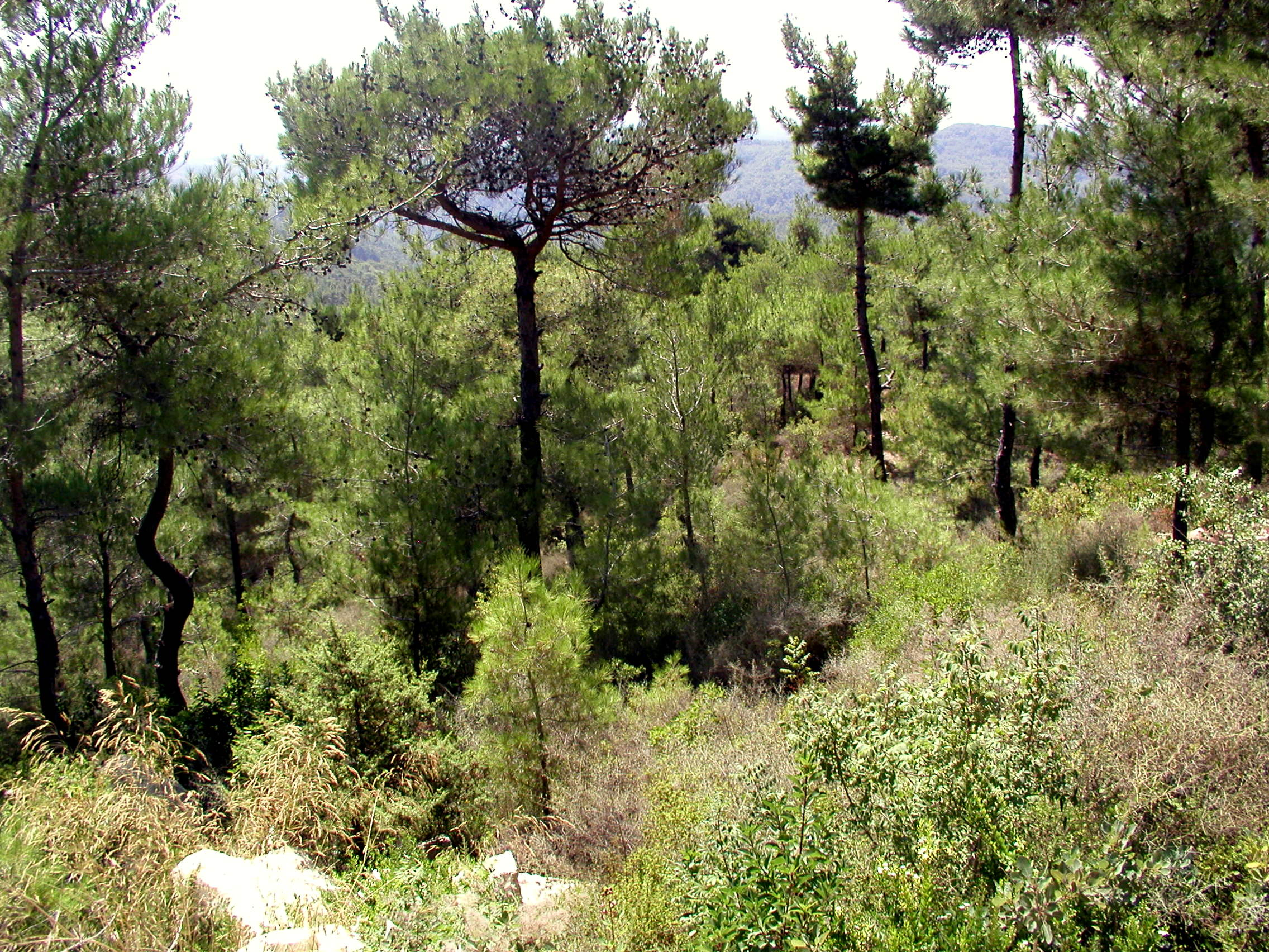 Pinus brutia trees near Kesab, Syria